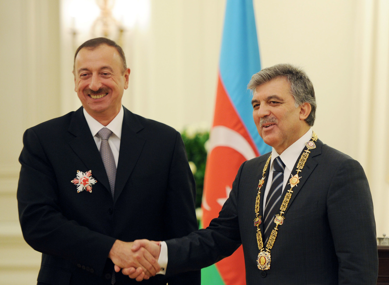 The presidents of Azerbaijan and Turkey have been awarded at Cankaya Palace